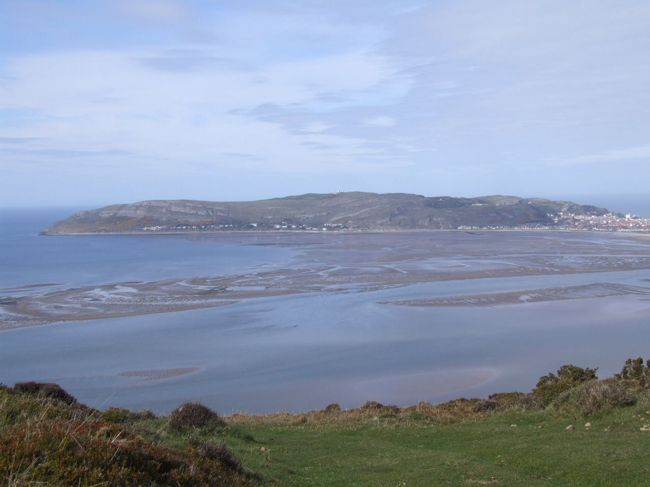 Y Gogarth (